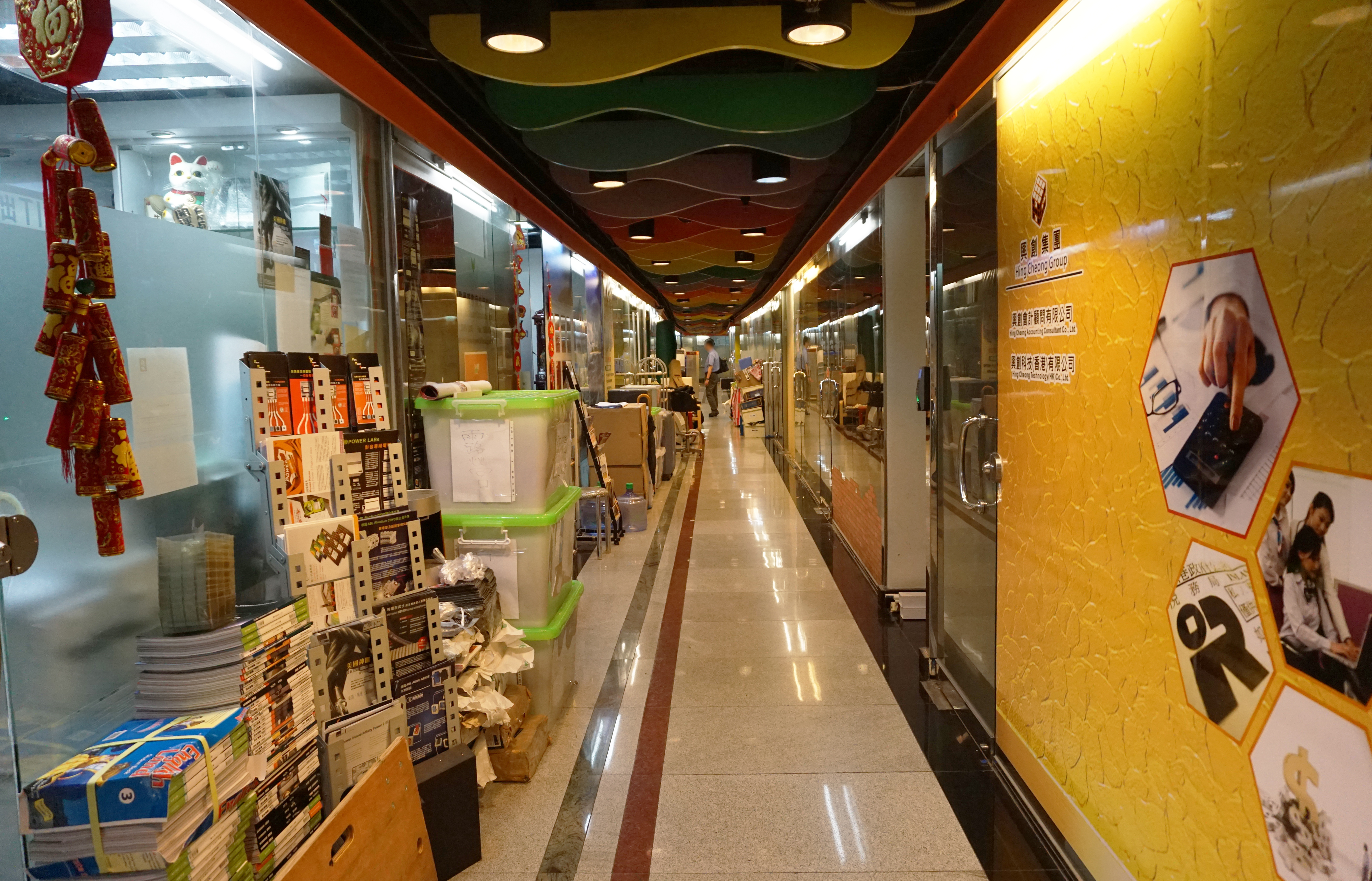 New Trend Plaza in Fortress Hill, Hong Kong.